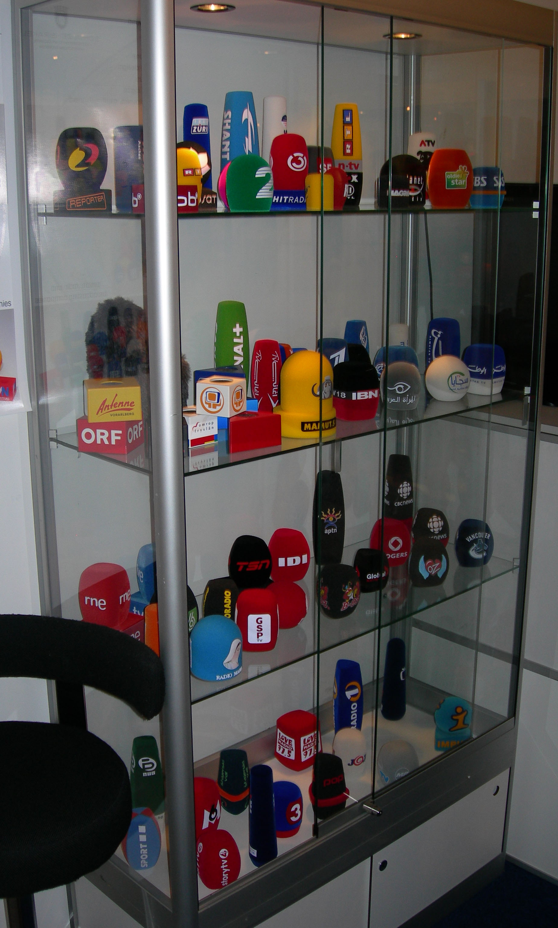 Shulze Brakel microphone windshields, IBC 2008, Amsterdam